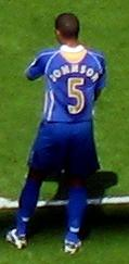 English football (soccer) player Glen Johnson